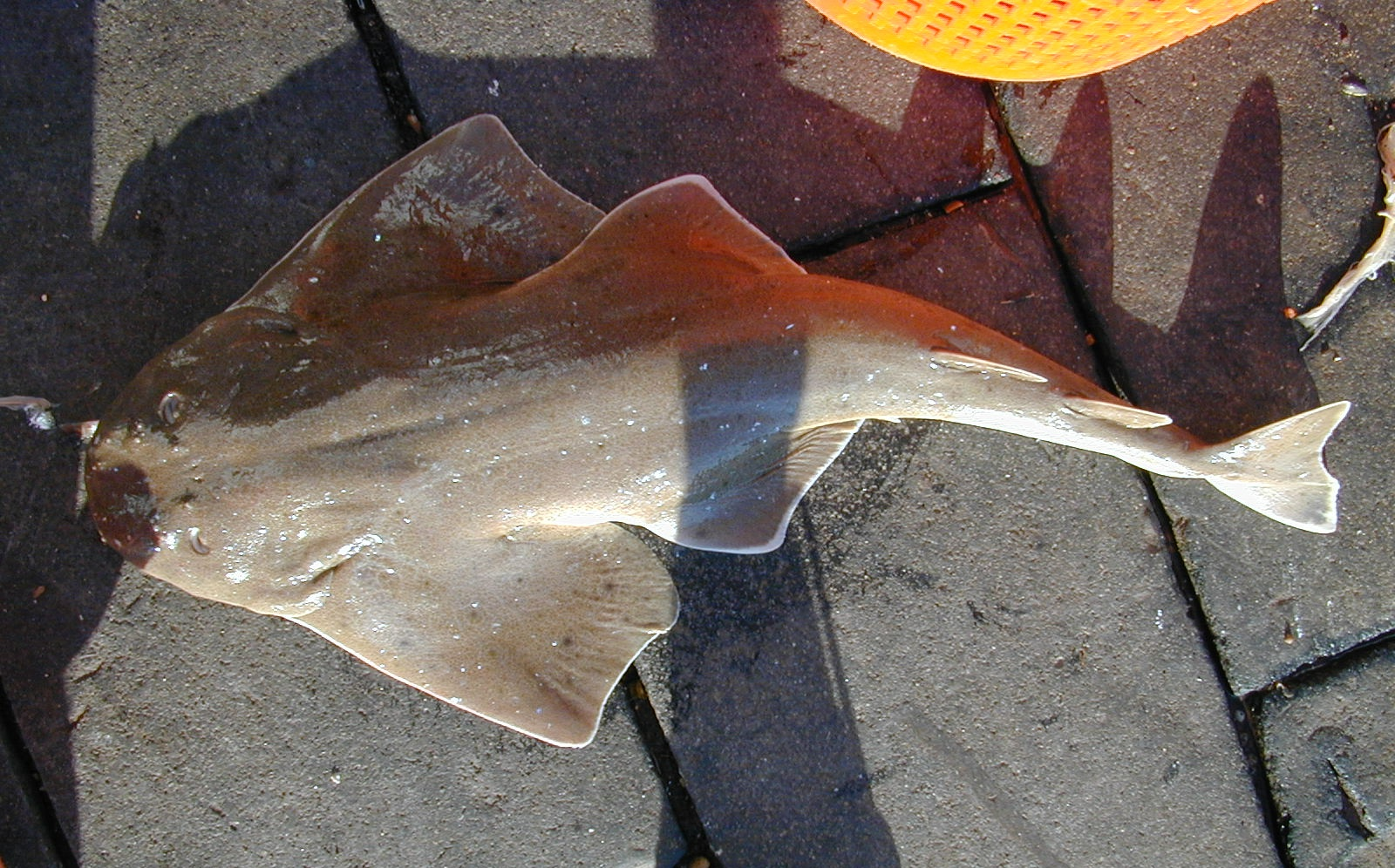 Atlantic angel shark (Squatina dumeril)